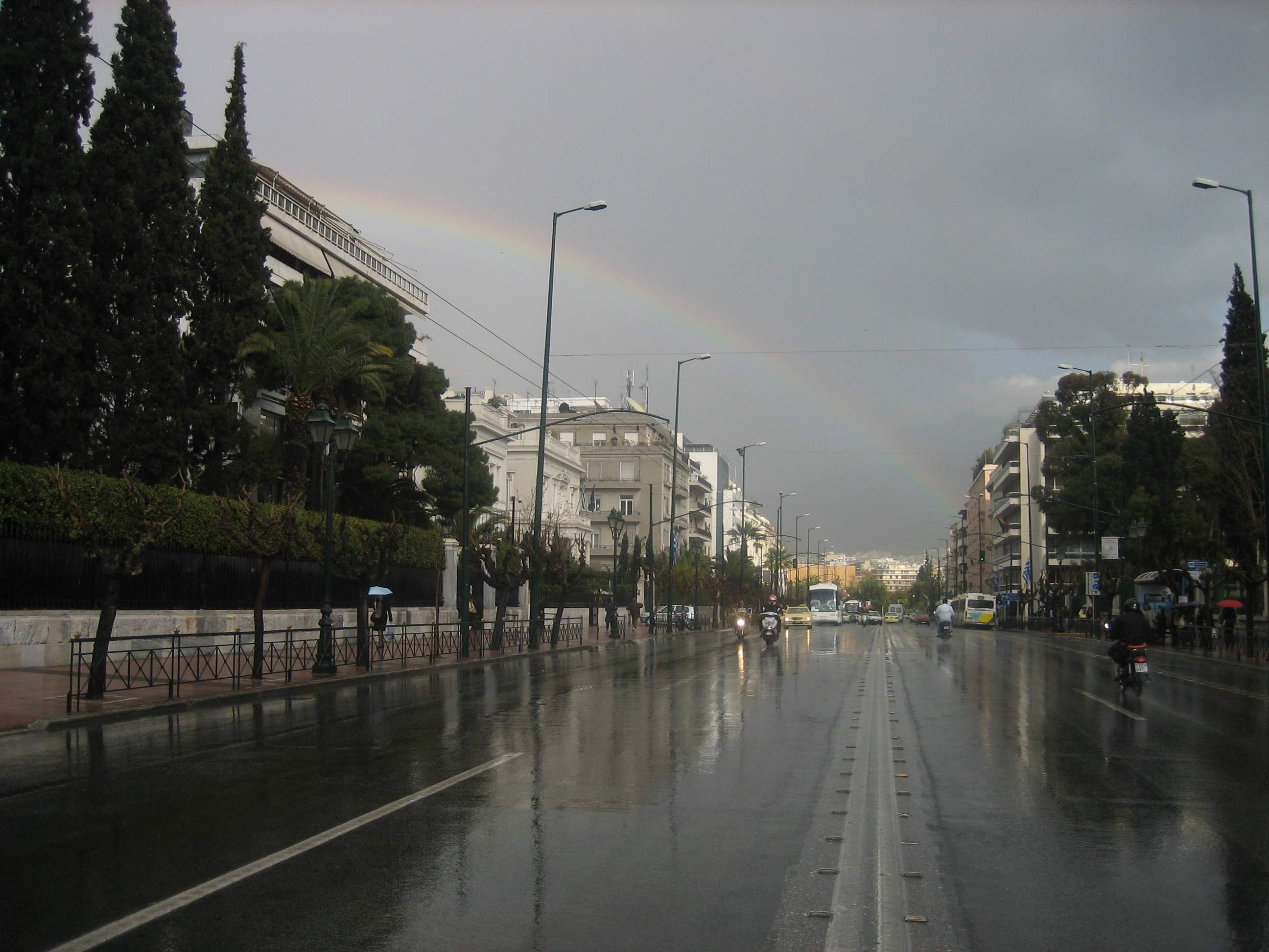 Rainbow in Vasilissis Sofias avenue in Athens, Greece